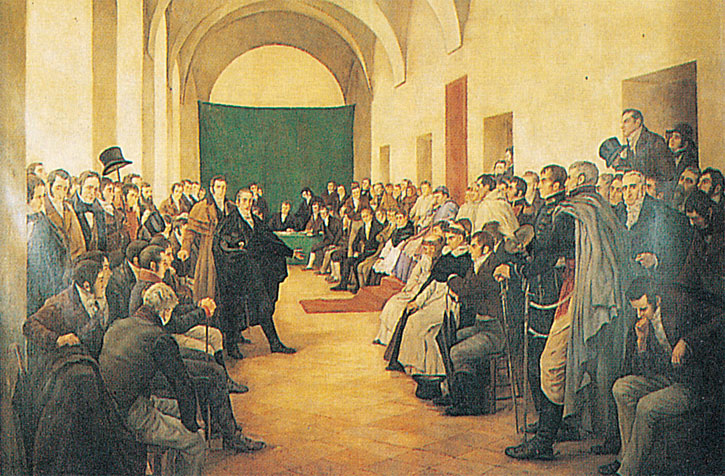 The "Cabildo Abierto" of may 22, 1810, in the city of Buenos Aires (now part of Argentina, then part of the Viceroyalty of the Río de la Plata), where it was decided to remove the viceroy Baltasar Hidalgo de Cisneros